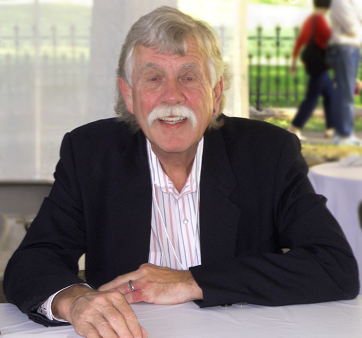 Musician Steven Fromholz at the 2007 Texas Book Festival in Austin, Texas, United States.